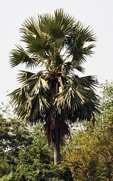 Palmyra Palm (Borassus flabellifer) in Kolkata, West Bengal, India.